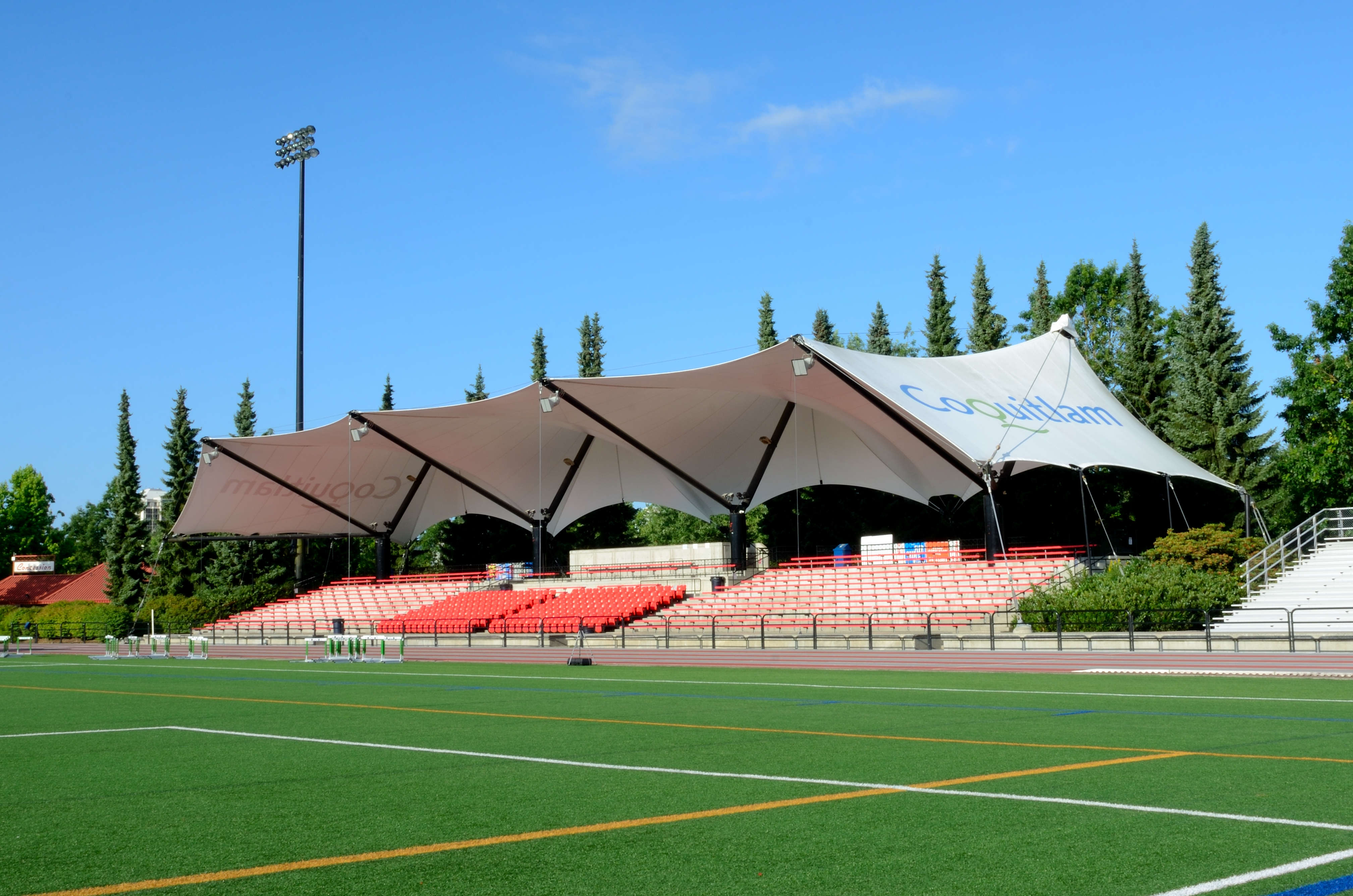 Percy Perry Stadium, with the new FieldTurf installed